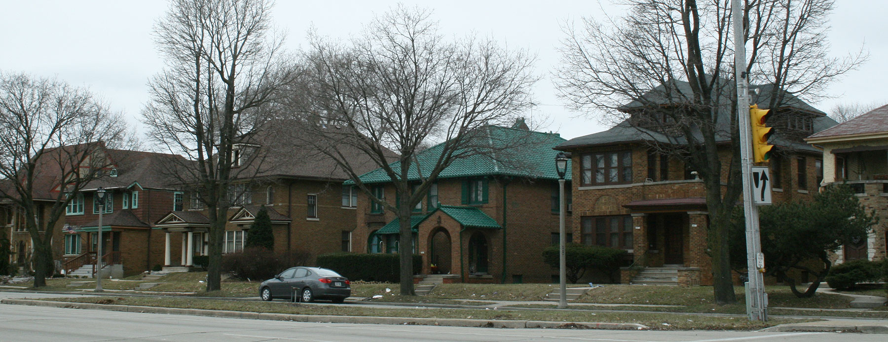 Buildings along the Sherman Boulevard Historic District. National Register of Historic Places, city of Milwaukee, Wisconsin.